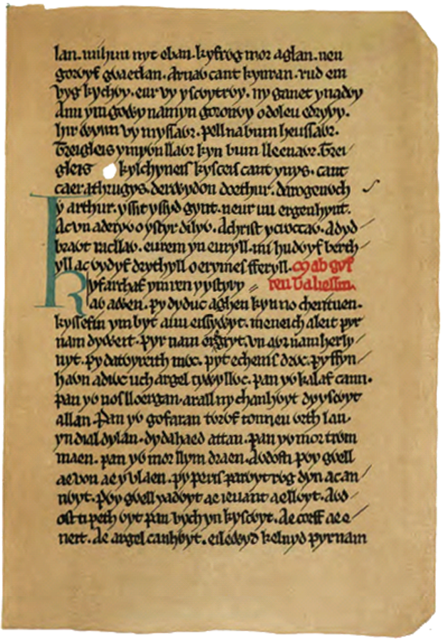 Facsimile of a page from the Book of Taliesin (folio 13 recto), showing the last lines of the poem Cad Goddeu and the beginning of the poem Mabgyfreu Taliesin (= BT 27).